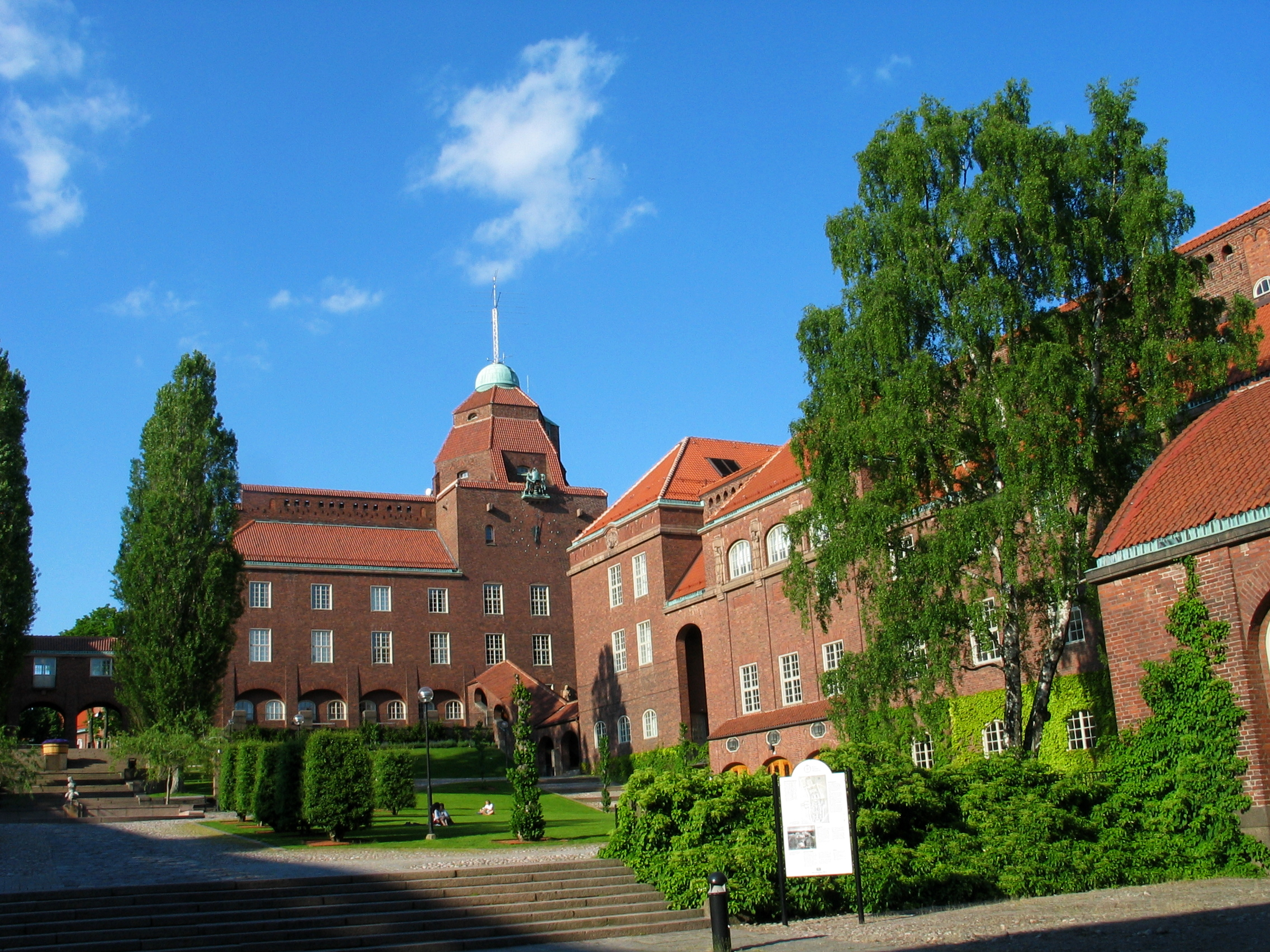 Royal Institute of Technology, photo taken in Sweden